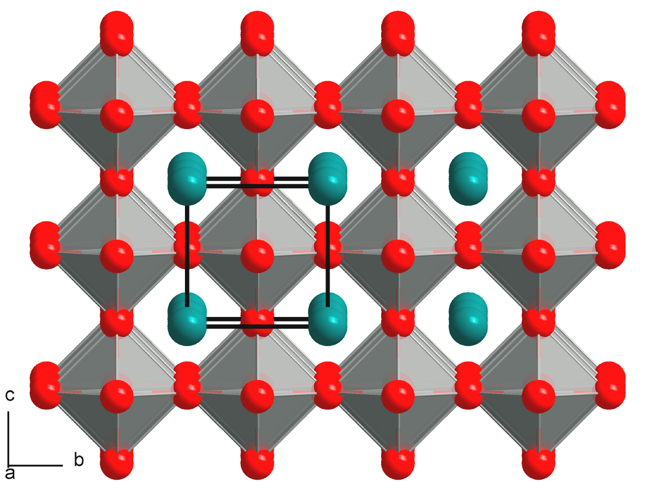 Crystal structure of the undistorted cubic perovskite-type structure in space group Pm3m. Crystallographic data